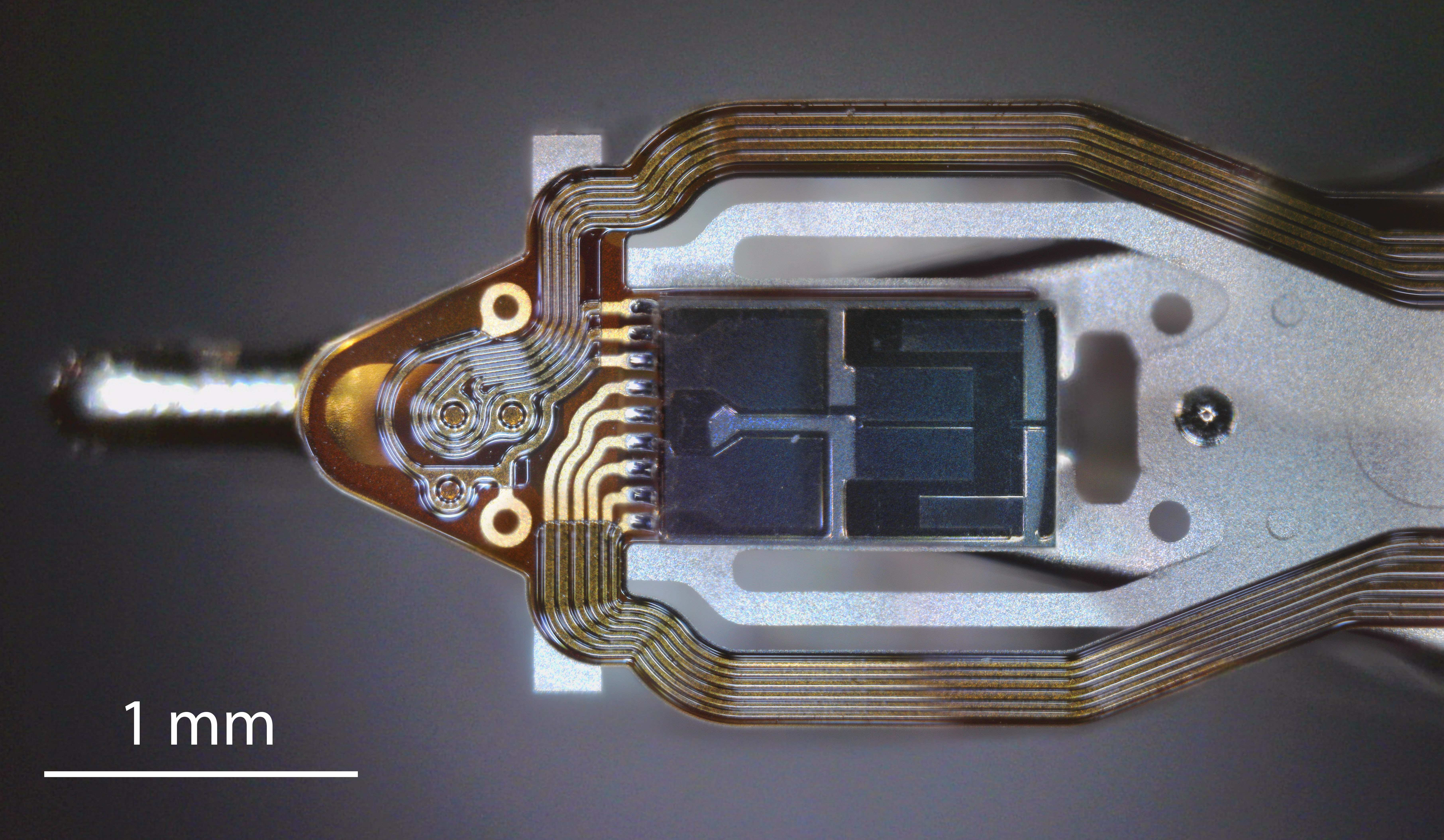 Read-write head of a Seagate ST3000DM001 3TB hard disk drive (manufactured in 2013). Showing the side that faces the disk platter. The dark rectangle is a slider which maintains a thin air cushion between itself and the platter. Its dimensions are 1.25mm by 0.78mm. The platter surface moves from right to left. Mosaic of roughly 10 partial images.